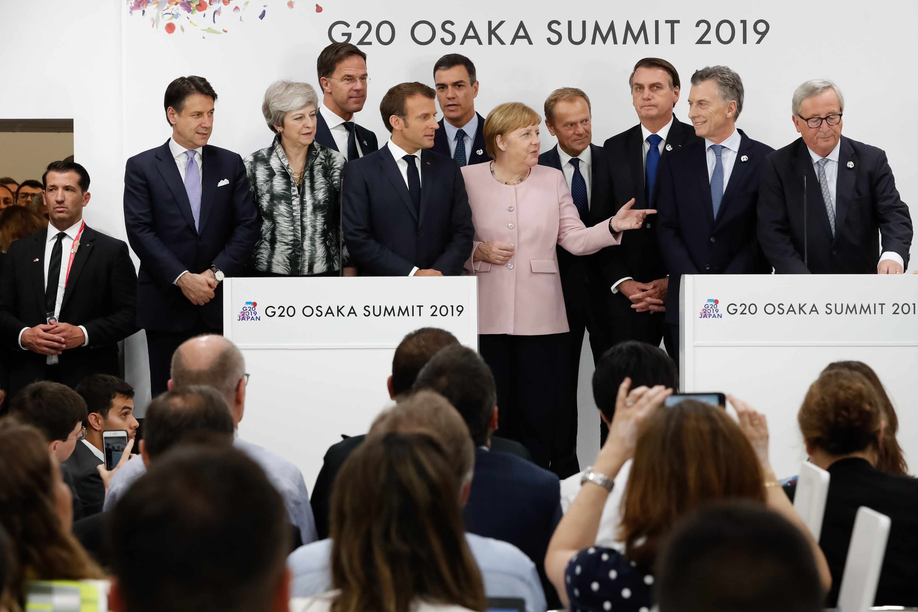 Mercosur and European Union leaders gathered during a press conference in Osaka, Japan on June 29, 2019.